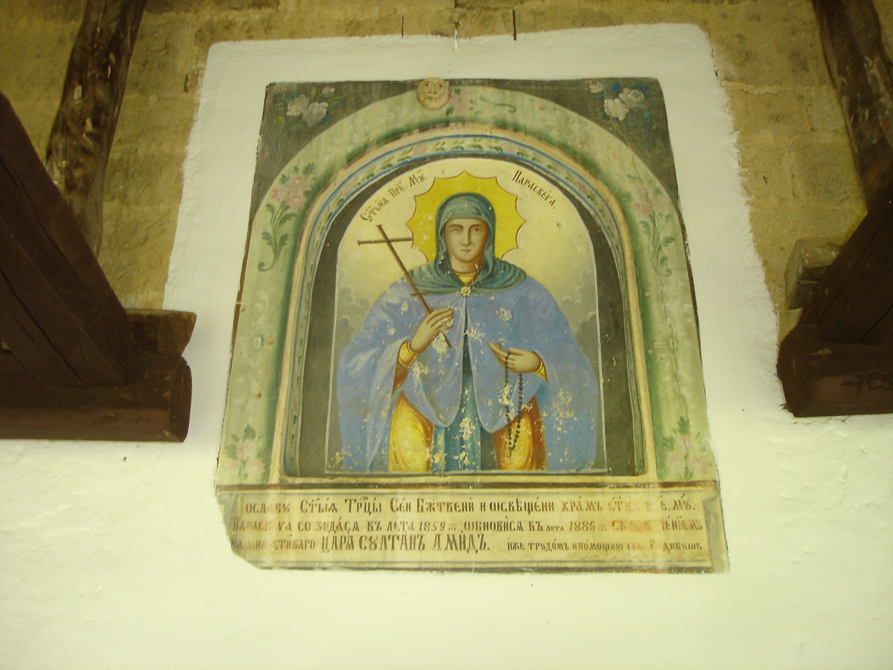 Interior of the Church Sv. Petka in the village of Radibus, Kriva Palannka region, Macedonia